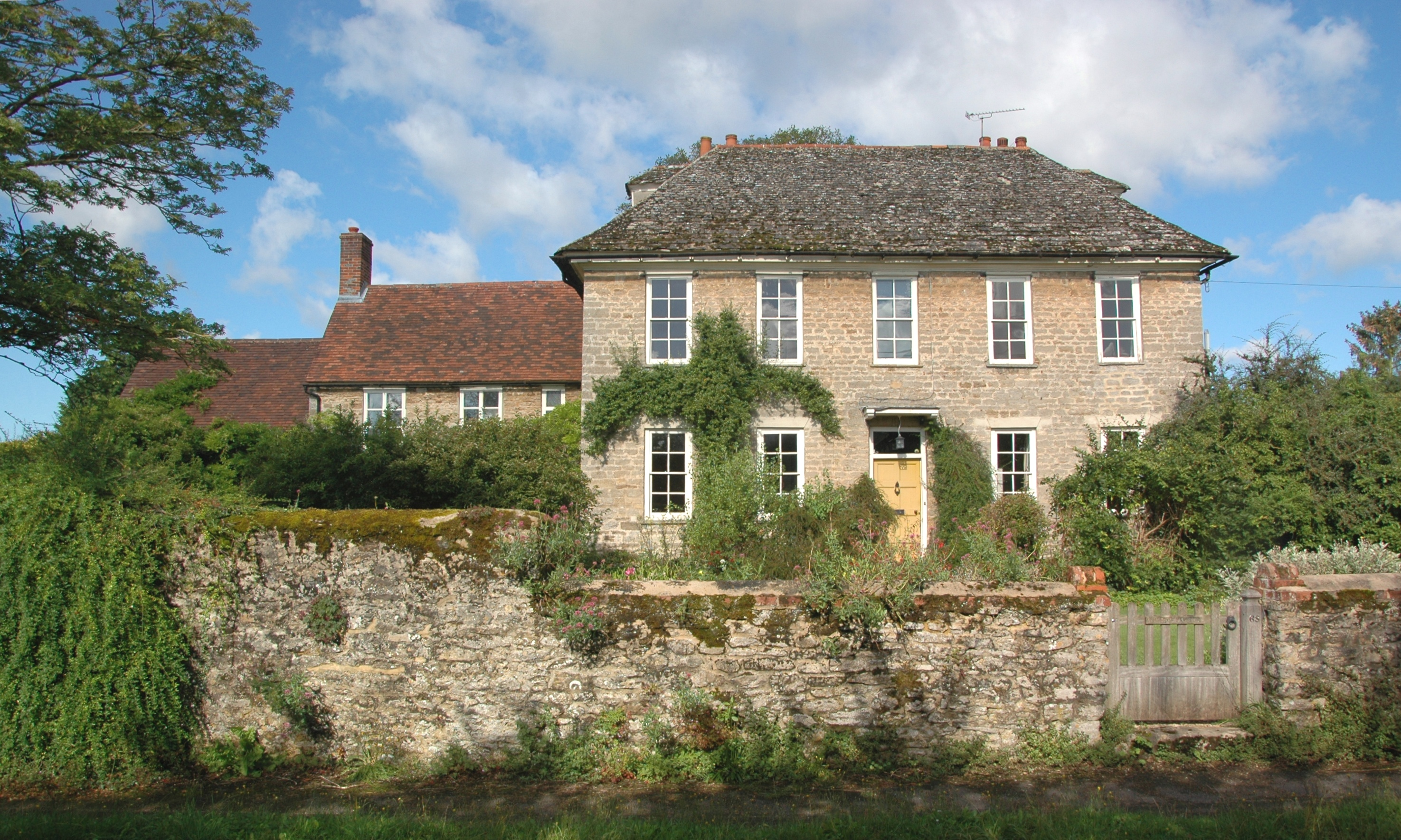 Church Farmhouse, Dry Sandford, Oxfordshire (formerly Berkshire): front block, added in 1718